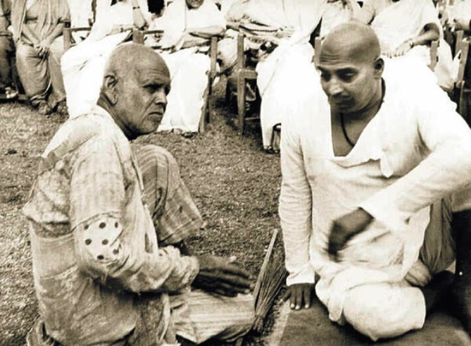 Gadge Maharaj (L) and Tukdoji Maharaj (R); both were saint and social reformer in Maharashtra, India.